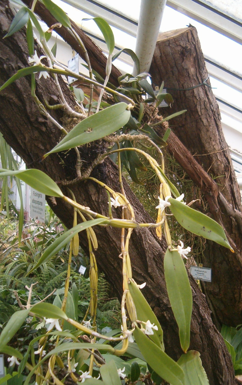 At Botanical Gardens Berlin-Dahlem Species Flickingeria albopurpurea